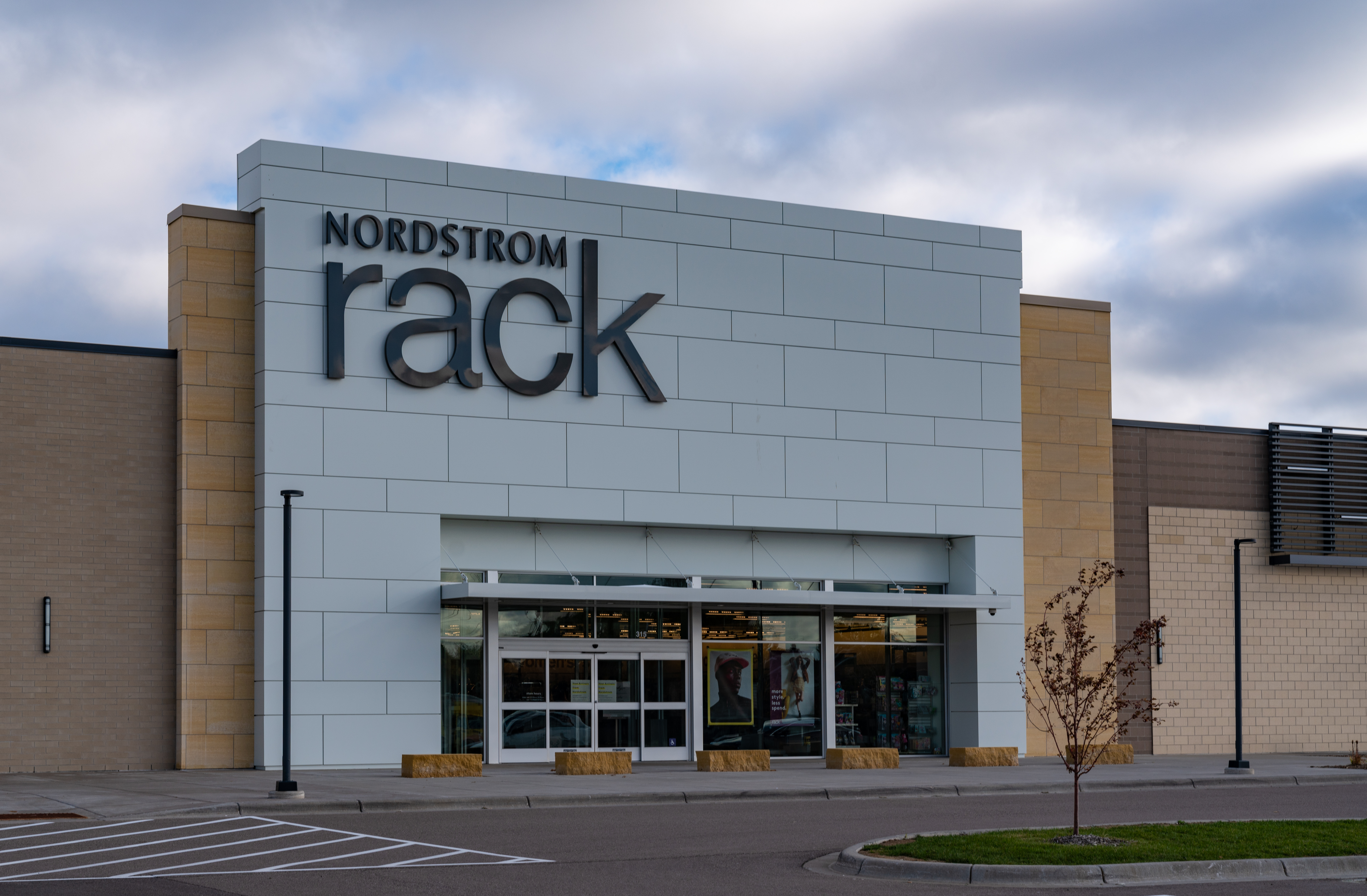 A Nordstrom Rack retail shopping store at the new City Place development in suburban Woodbury, Minnesota.